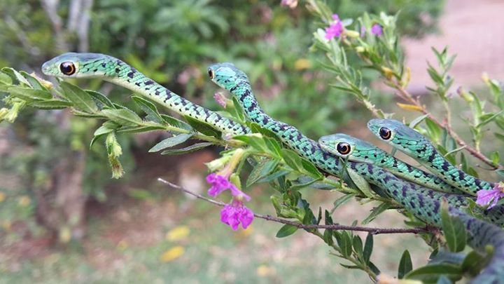 Philothamnus semivariegatus hatchlings - Natal, South Africa